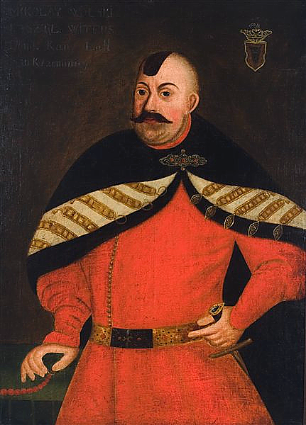 Mikołaj Wolski castellan of Vitebsk